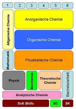 scheme of bachelor studies